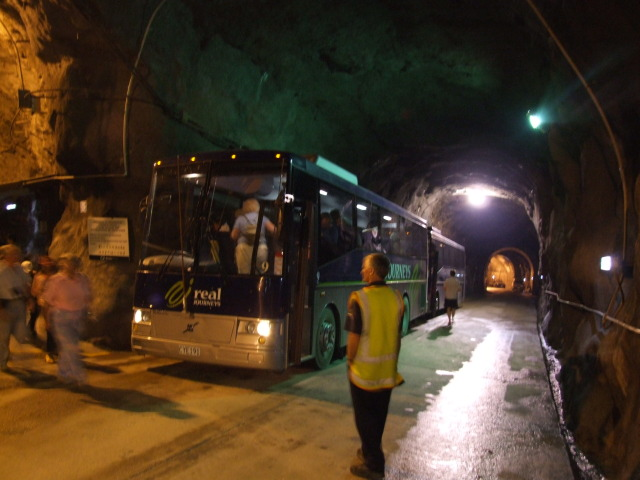 Driving on the right in New Zealand on the access road to the Manapouri power station.